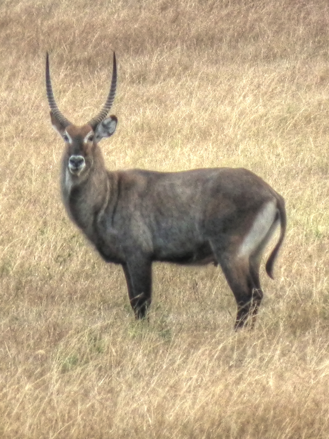 Waterbuck, Kobus ellipsiprymnus in Tanzania